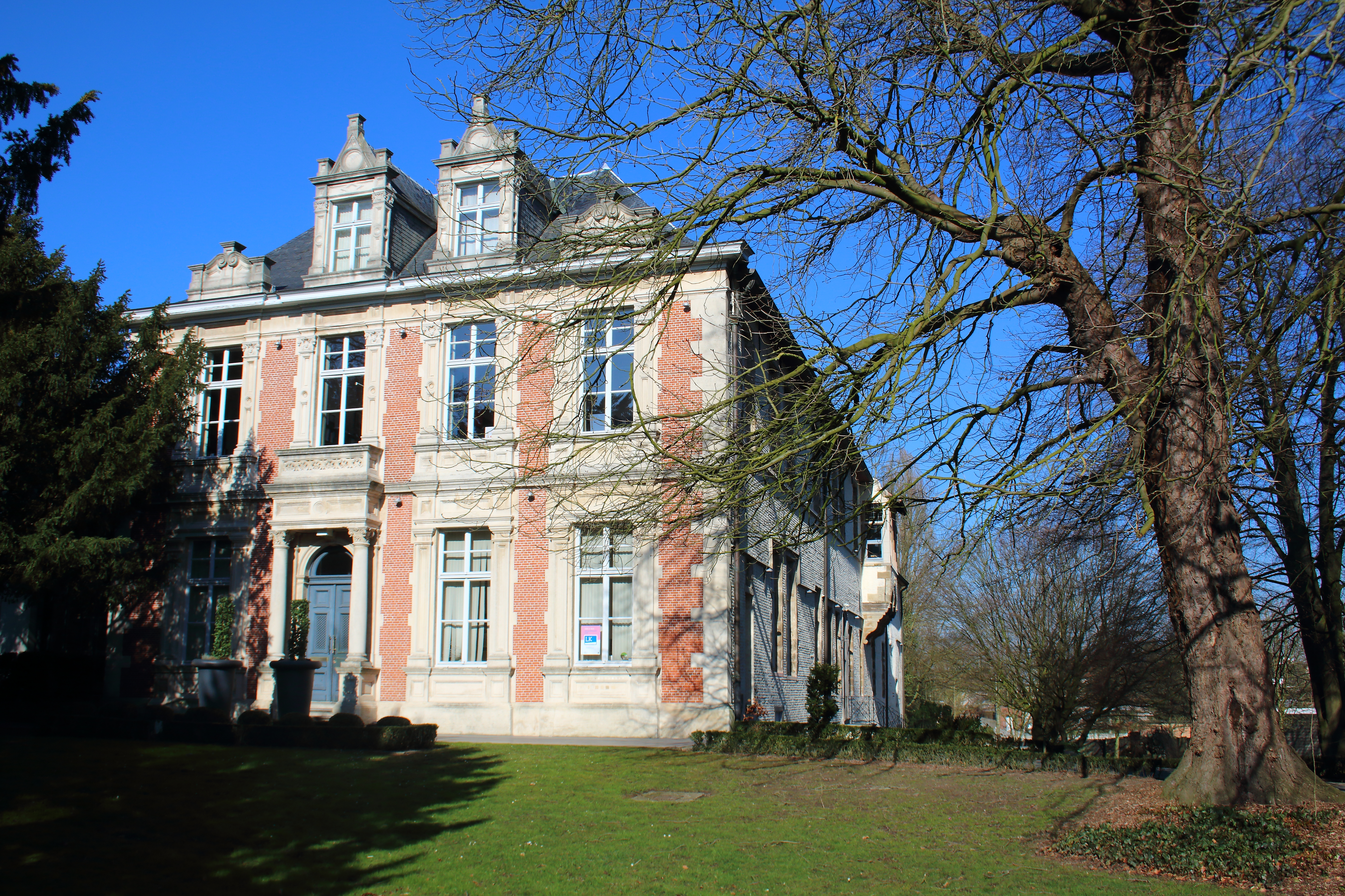 Egmont's castle, Zottegem, Flanders, Belgium